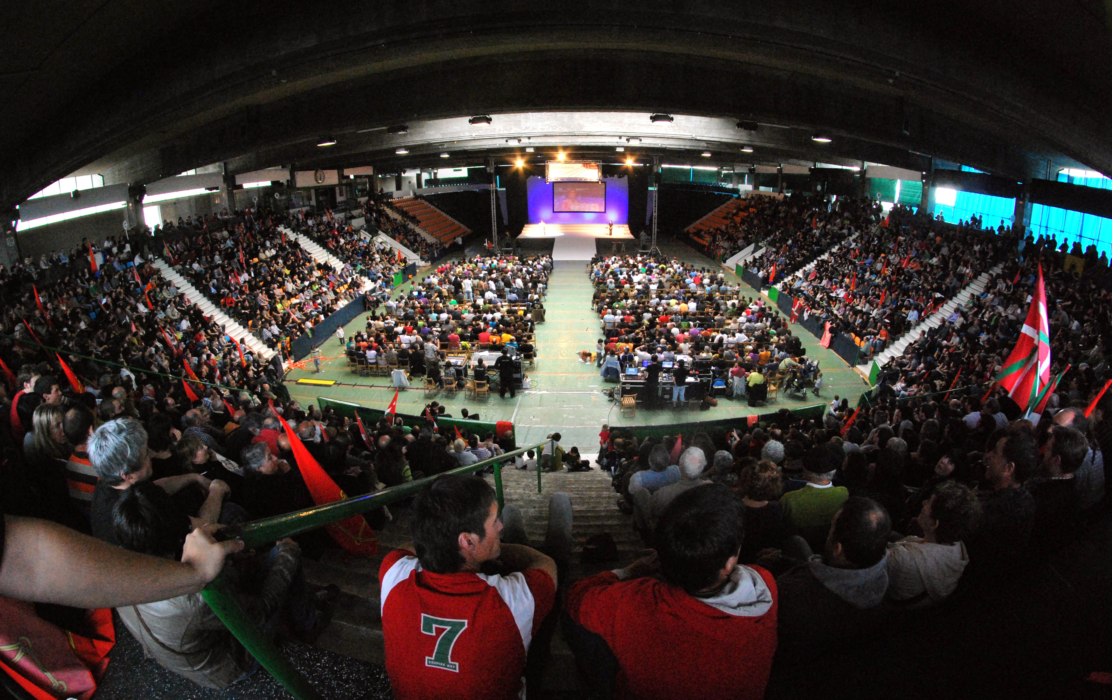 Anaitasuna sport pavillion in the central act in Navarre of Bildu coalition